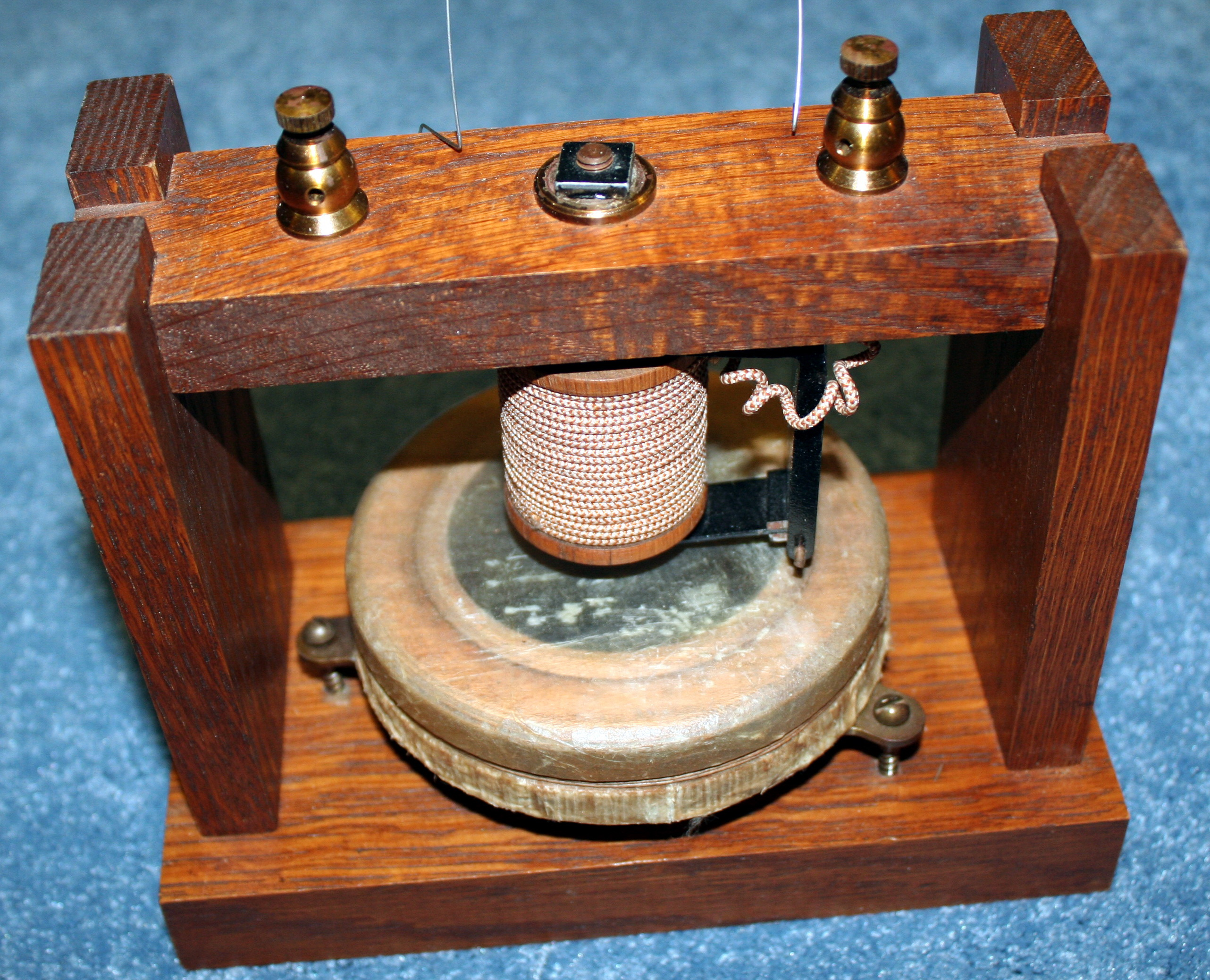 Graham Bell experimental transmitter (1875)